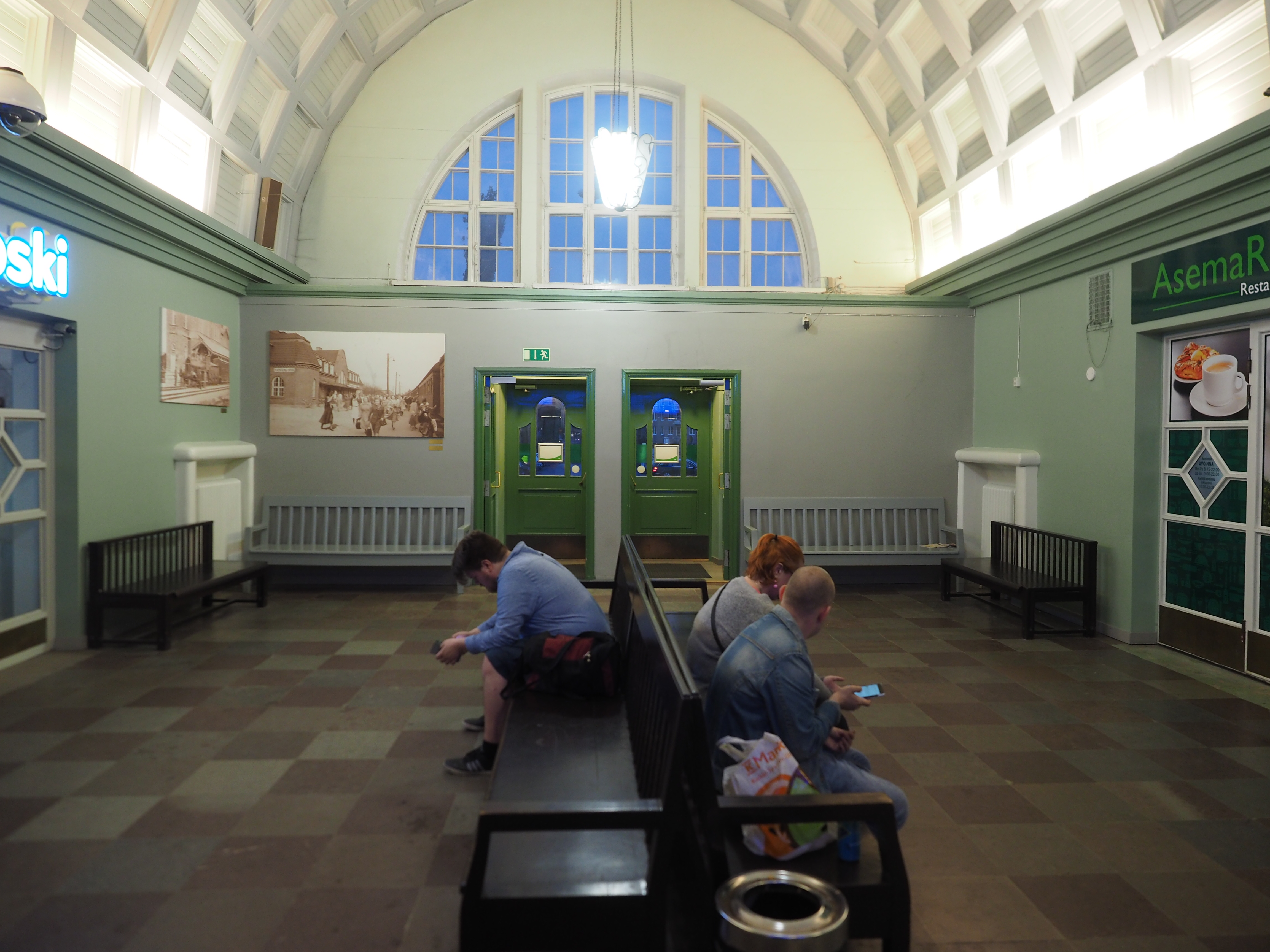 An interior view of the Hämeenlinna railway station in Hämeenlinna, Finland, in the middle of the night.